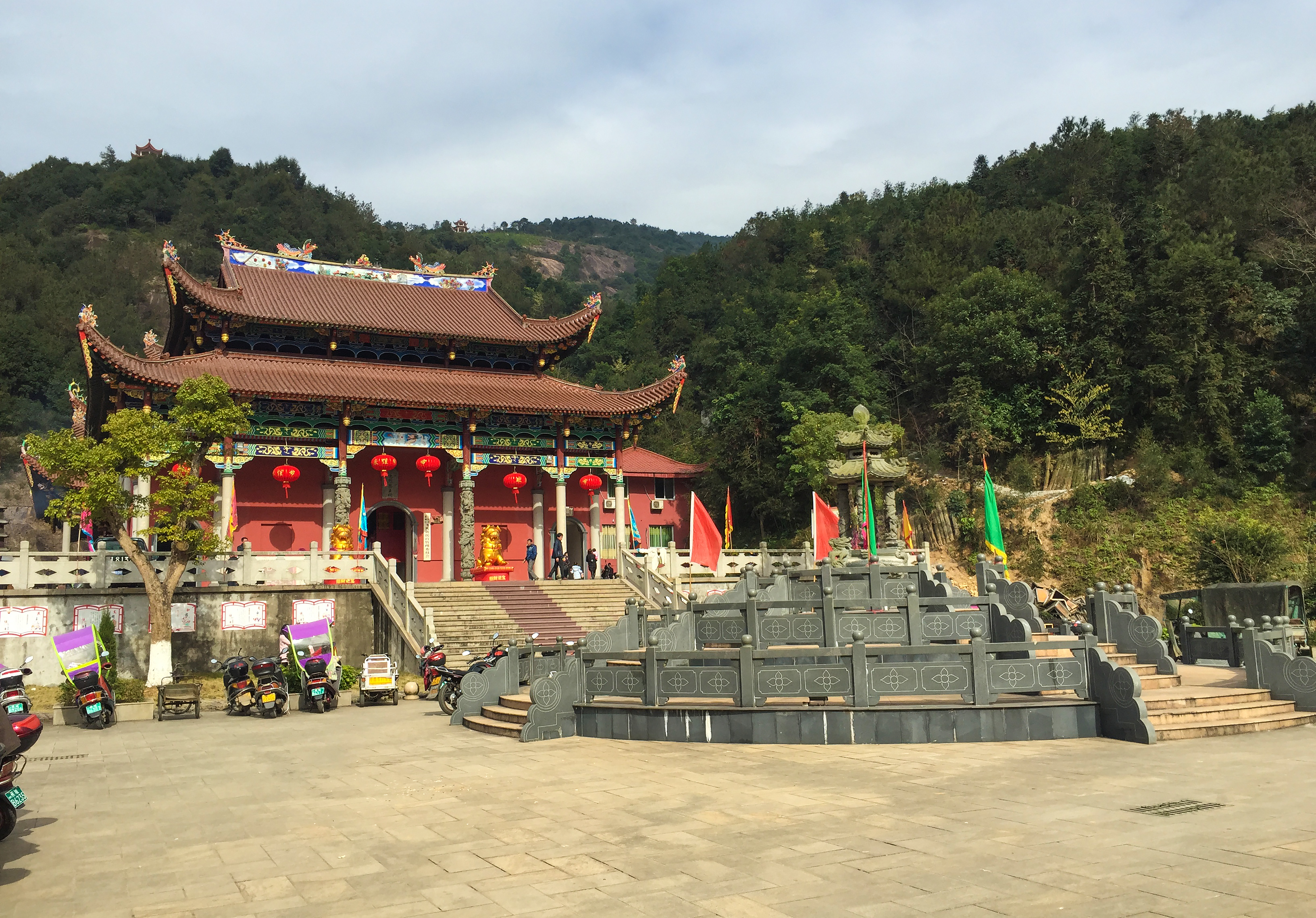 It's a temple of civilian belief.